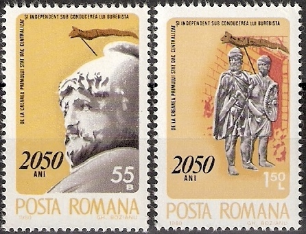 1980 Romanian Post; stamp of Burebista